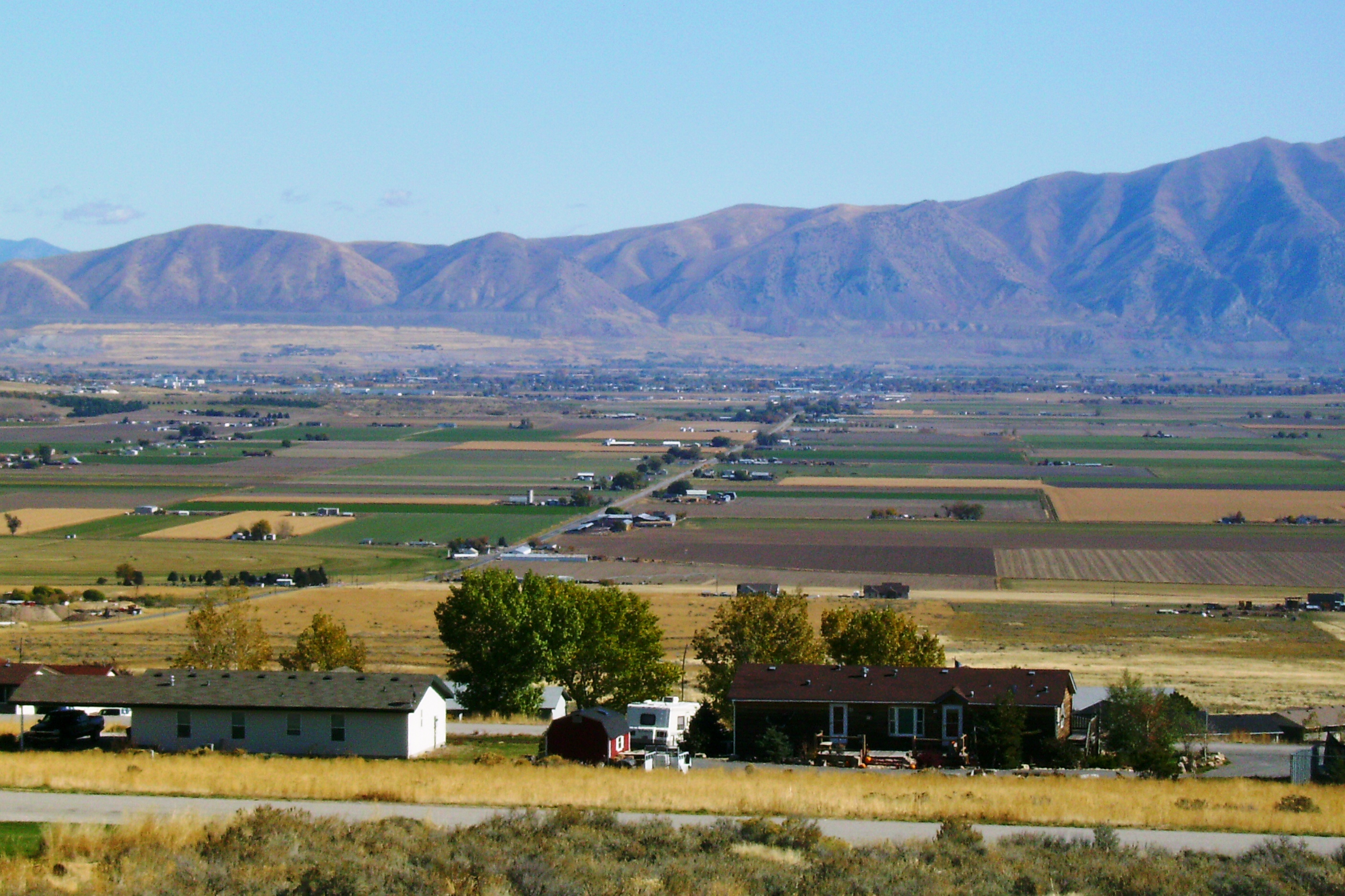 Bothwell, Utah, and the surrounding Bear River Valley